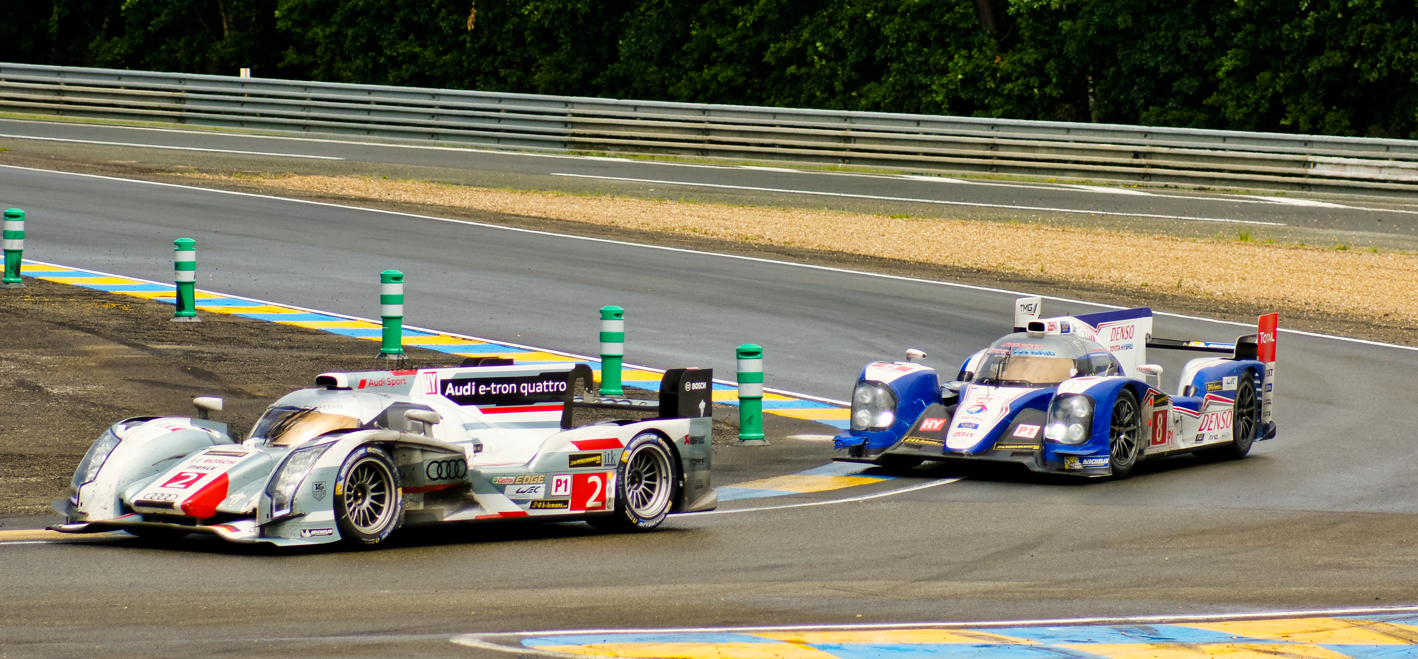 Audi R18 e-tron quattro followed closely through the Mulsanne corner by the Toyota TS030 at 2013 24 Hours of Le Mans